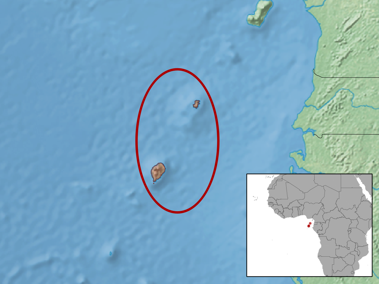 geographic distribution of Afroablepharus africanus synonyms: according to Reptile Database Mocoa africana GRAY 1845: 85 Lygosoma africanum BOULENGER 1887: 265 Riopa (Panaspis) africanum — SMITH 1937: 229 Leiolopisma africana MITTLEMAN 1952 Panaspis africana - PERRET 1973 Panaspis africana — GREER 1974: 29 Leptosiaphos africana Afroablepharus africanus — SCHMITZ et al. 2005 according to IUCN Leiolopisma africana (Gray, 1845) Lygosoma africanum (Gray, 1845) Mocoa africana Gray, 1845 Panaspis africana (Gray, 1845) Riopa africanum (Gray, 1845)